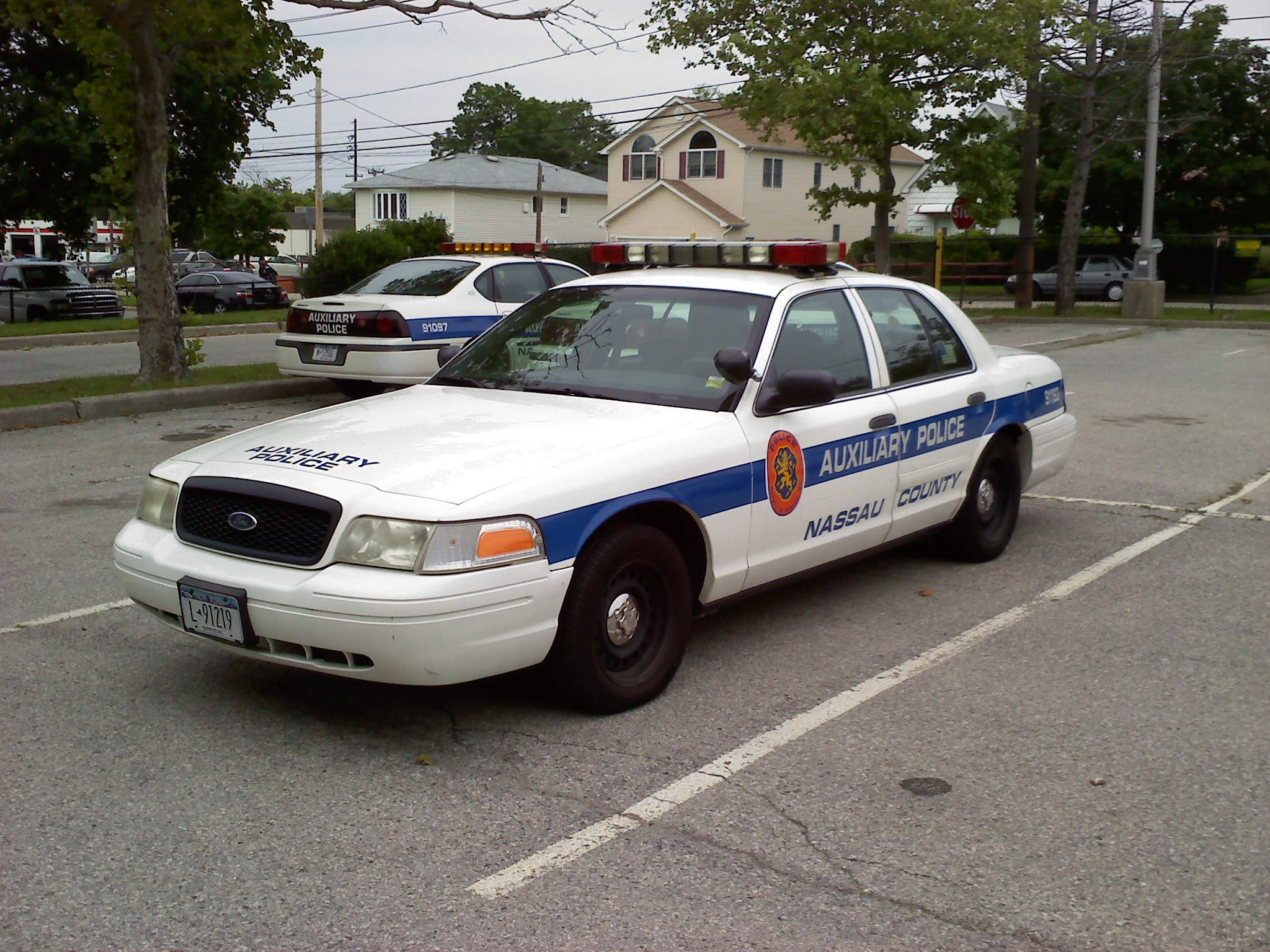 A Nassau County Auxiliary Police RMP (Radio Motor Patrol)